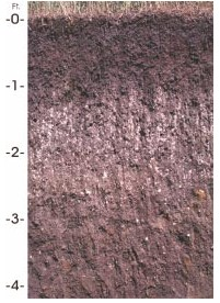 Houdek soil from South Dakota, USA: Surface layer: dark grayish brown loam Subsoil - upper: dark grayish brown clay loam Subsoil - middle: grayish brown clay loam Subsoil - lower: light olive brown clay loam Substratum: light yellowish brown clay loam